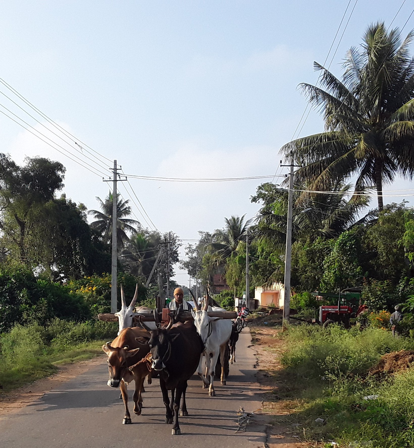 Karnataka State, India.